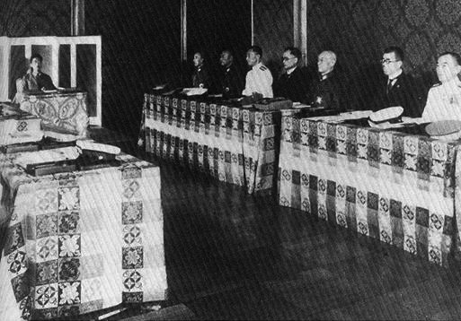 Gozen_Kaigi which made the formal decision for Japanese surrender.